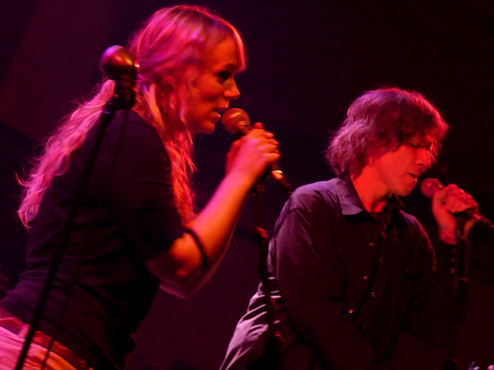 Isobel Campbell with Mark Lanegan